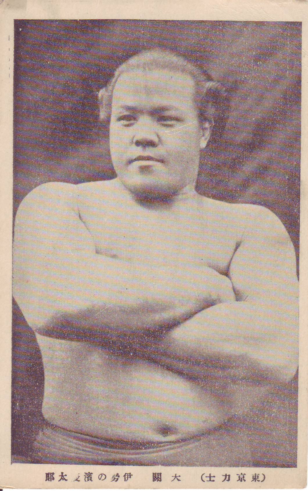 Postcard of Isenohama Keitaro (sumo wrestler. Ozeki).